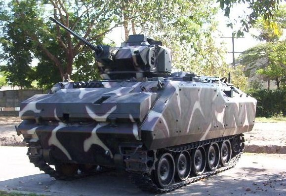 An FMC AIFV with 25mm cannon in service with the Philippine Army